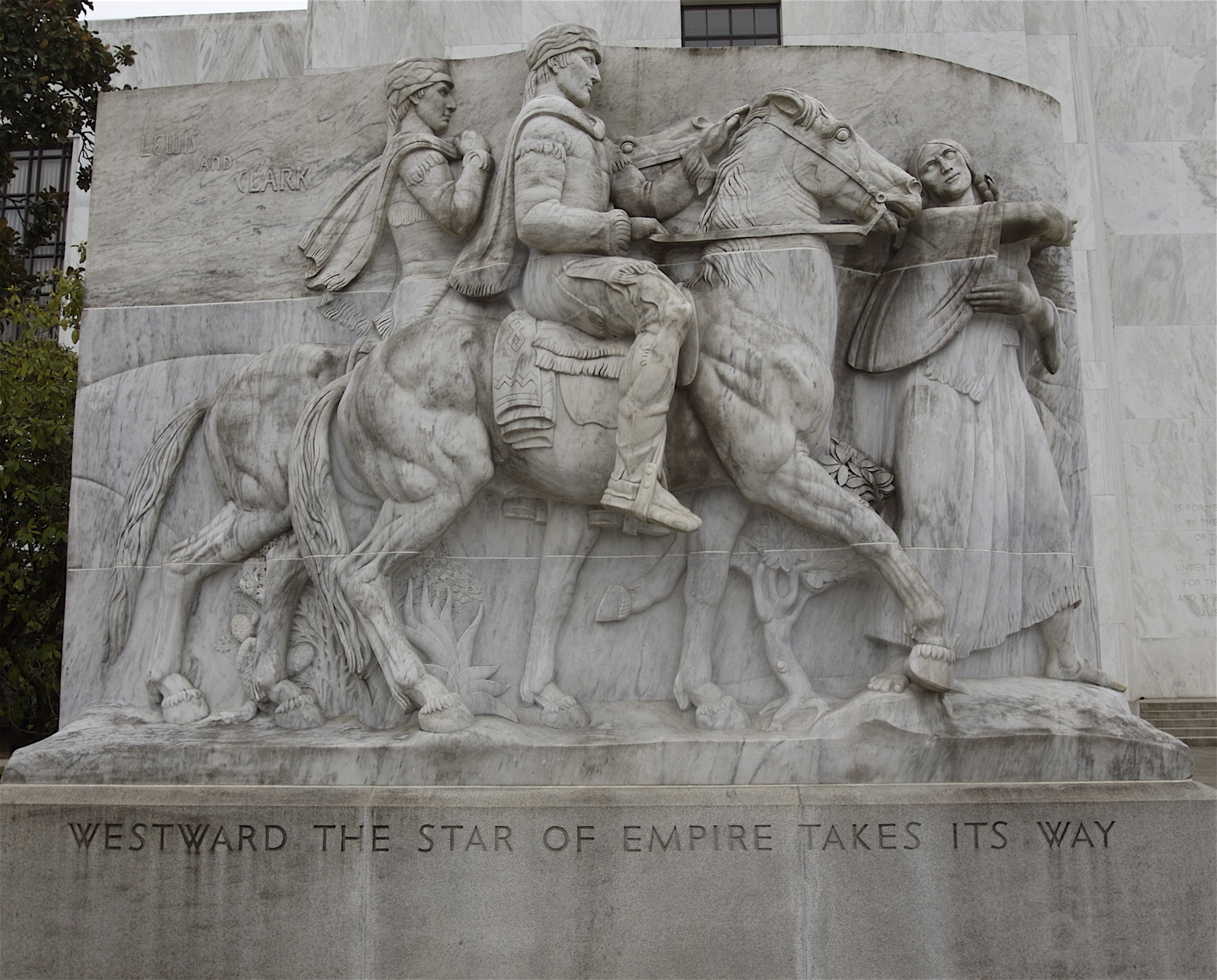 Bas relief at the Oregon State Capitol, on the left side of the stairs to the main entrance. It features Lewis and Clark Expedition, and is titled as Westward the Star of Empire Takes Its Way.